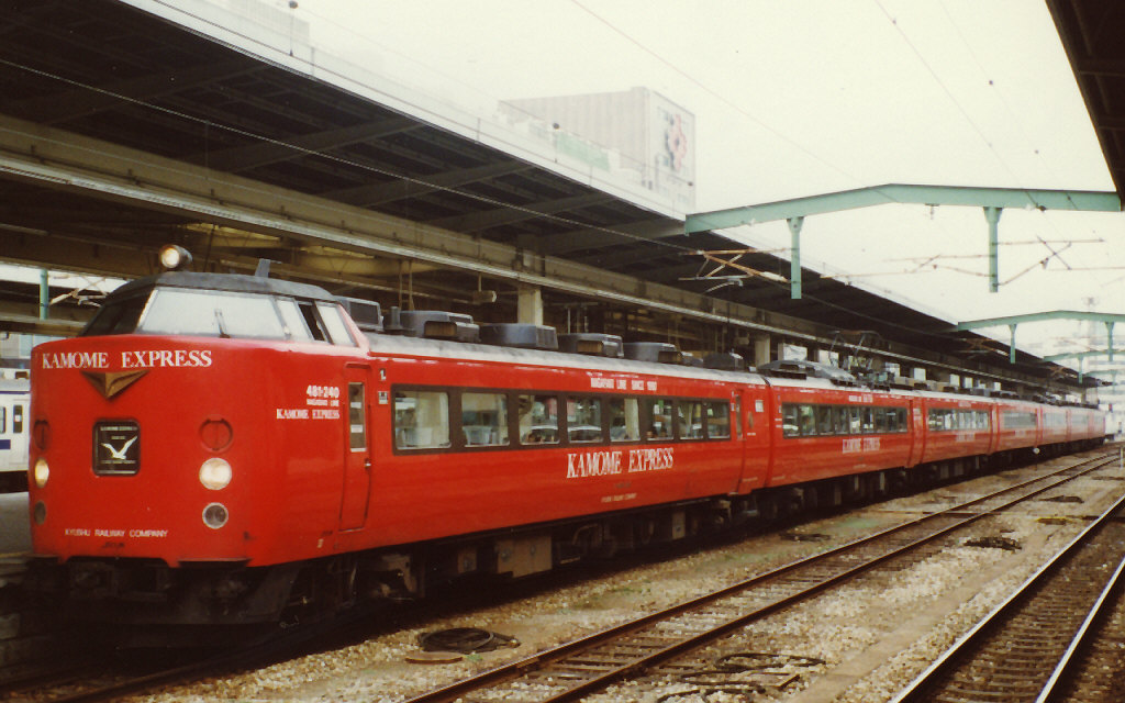 JR Kyushu 485 series EMU in Kamome Express livery at Hakata Station